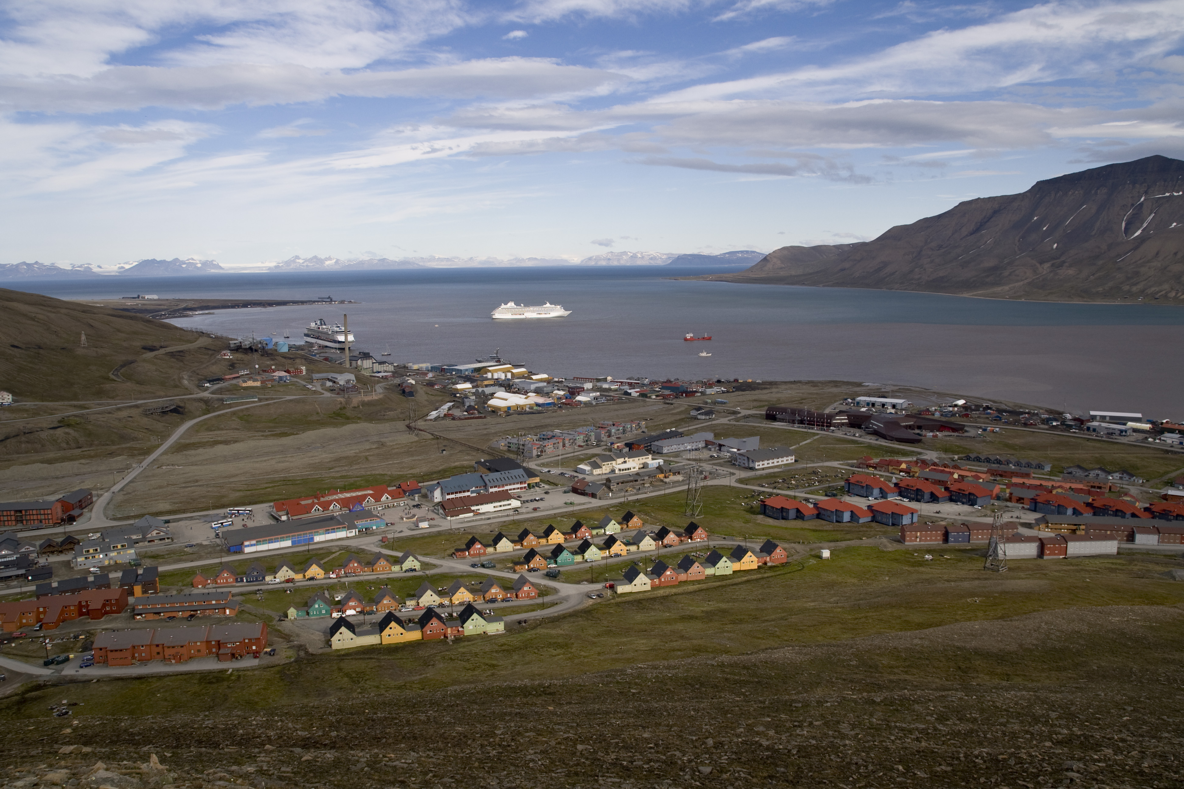 Longyearbyen, Svalbard